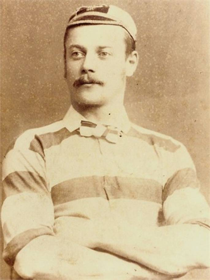 English rugby union player Harry Speakman (1864-1915). Speakman played at club level for Runcorn RFC and toured with the first British Isles team to Australia and New Zealand in 1888.